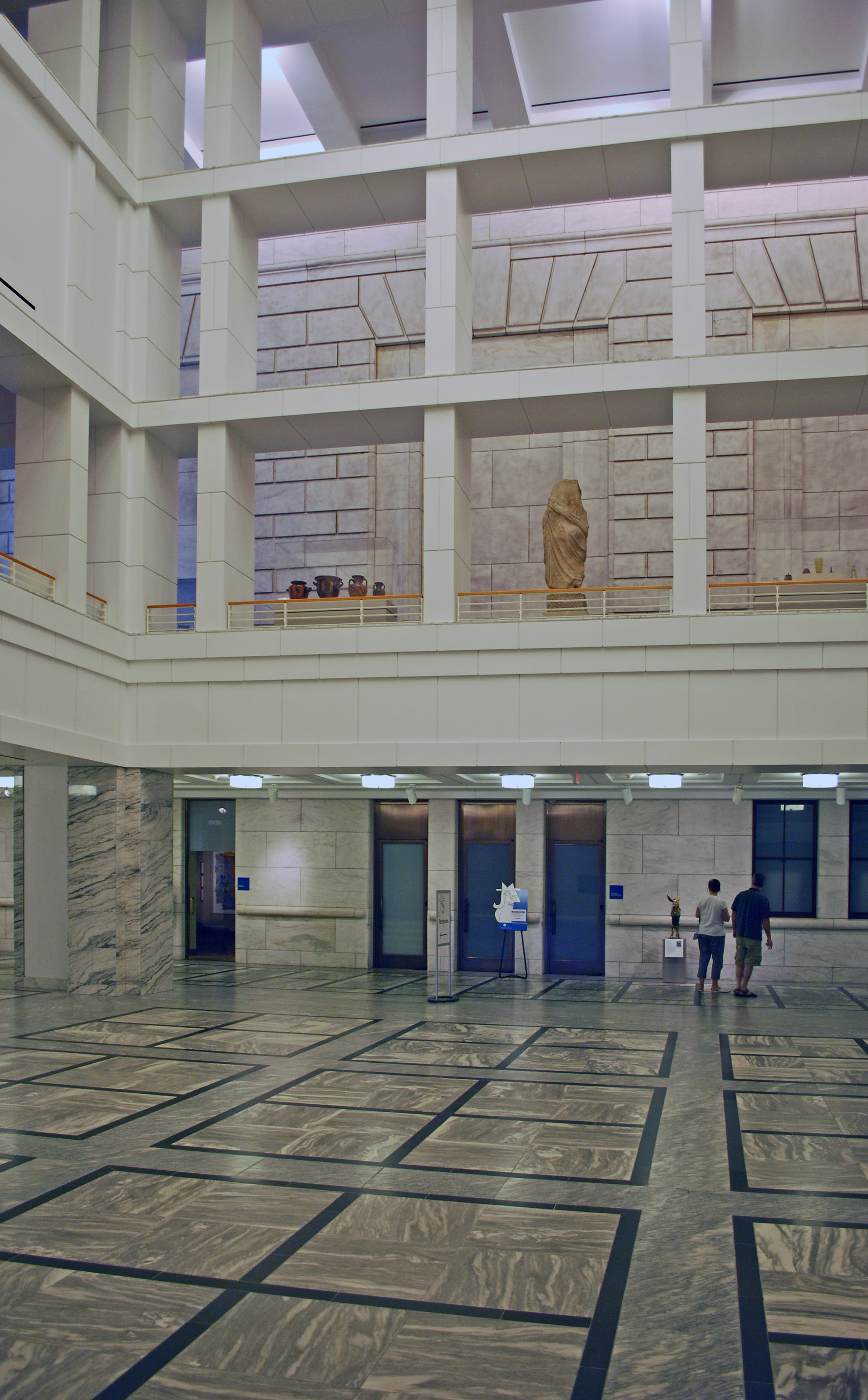 Detroit Institute of Arts: Atrium in new section